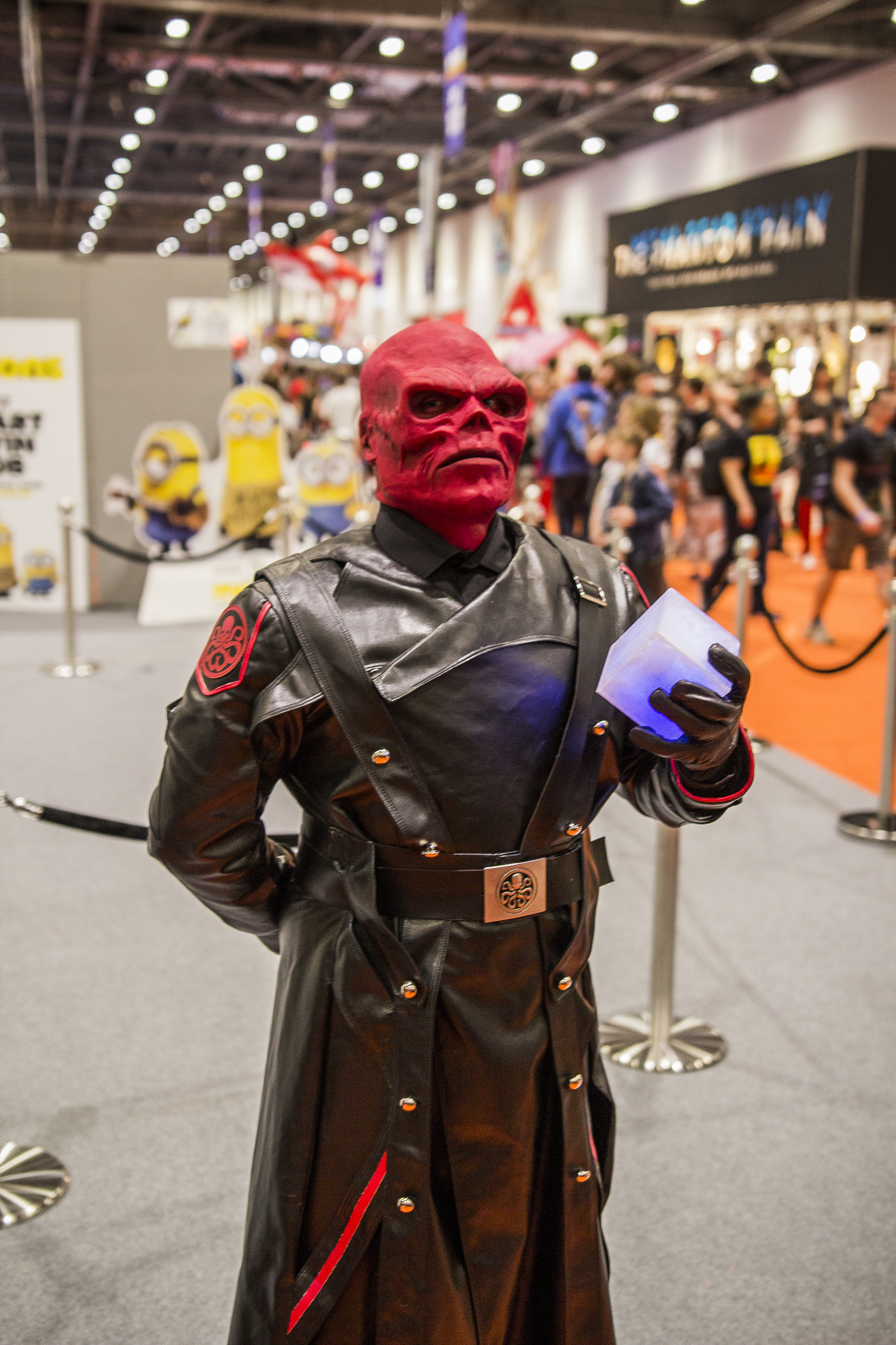 MCM London Comic Con May 2015